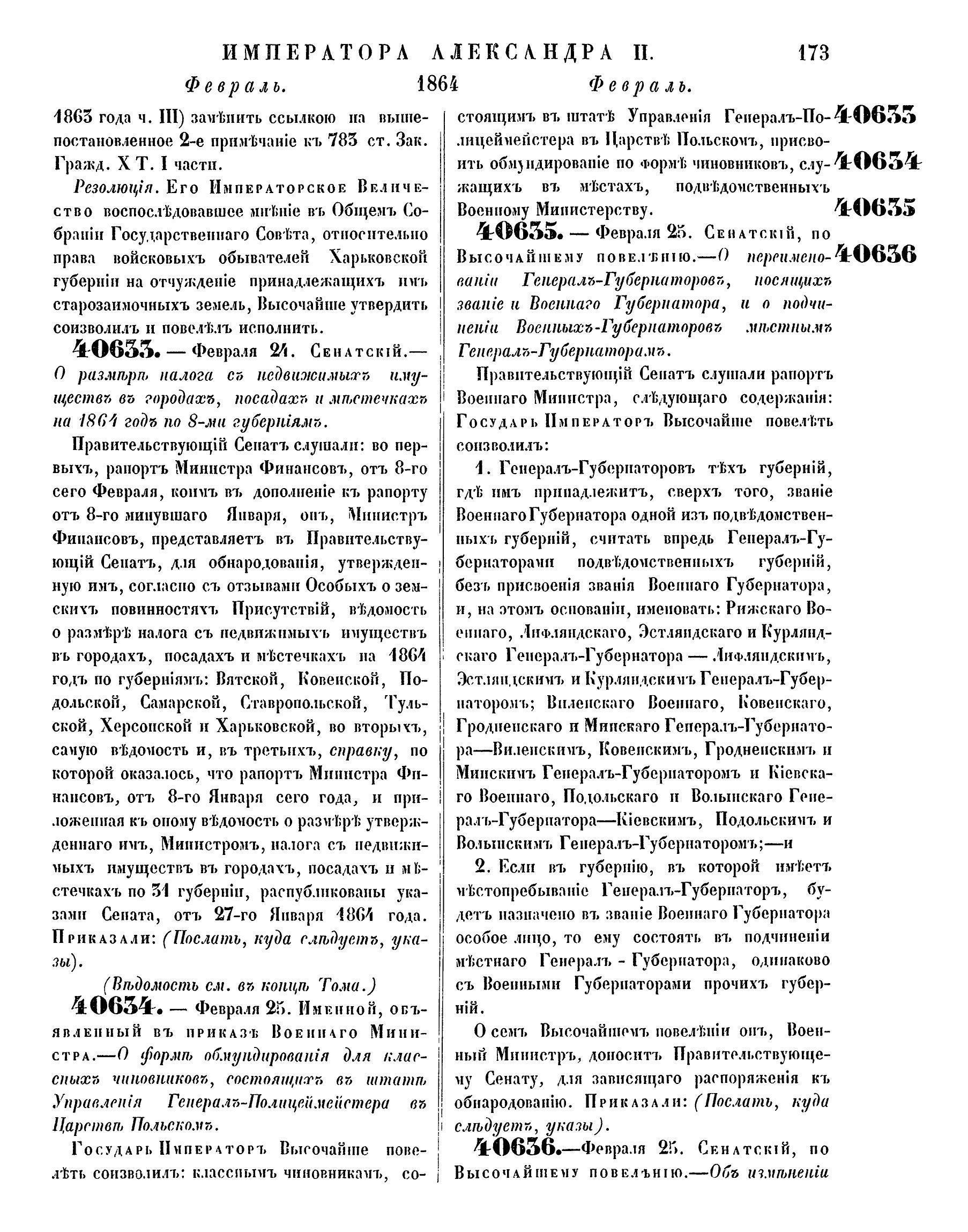 Complete Collection of Laws of the Russian Empire. Vol. 2, Т.39 nr 40635 - page 173, 1864 AD